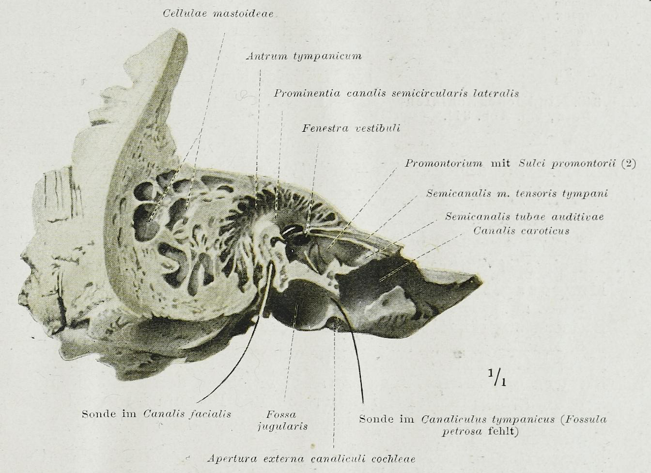 An anatomical illustration from the 1921 German edition of Anatomie des Menschen: ein Lehrbuch für Studierende und Ärzte with latin terminology.